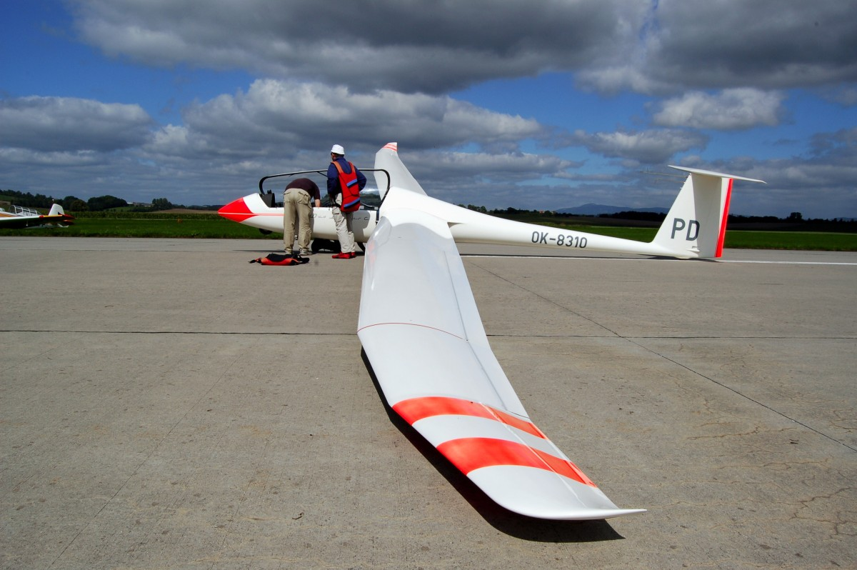 Duo Discus before take-off.